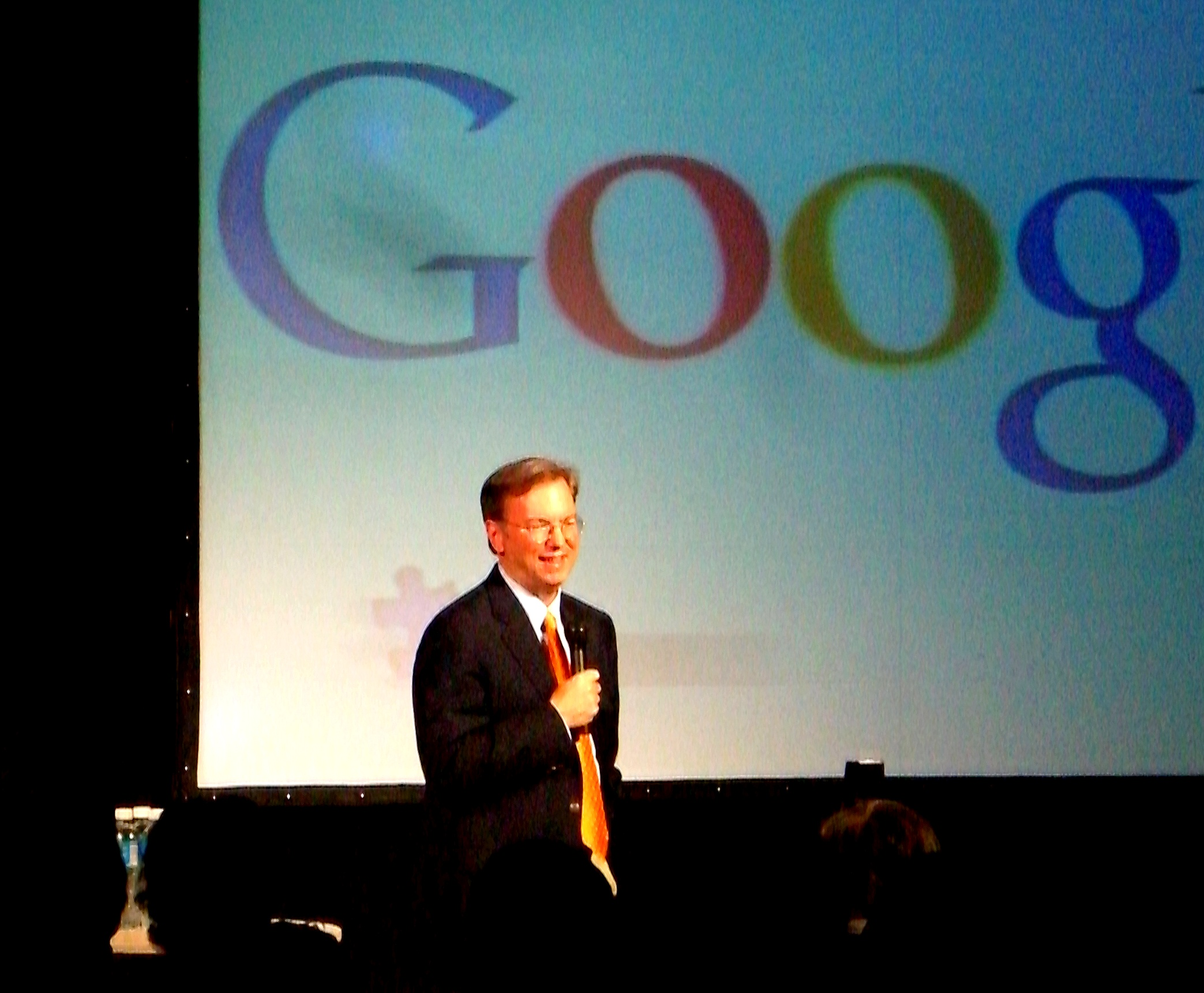 Eric Schmidt in Buenos Aires, Argentina, during his visit in April, 2007.